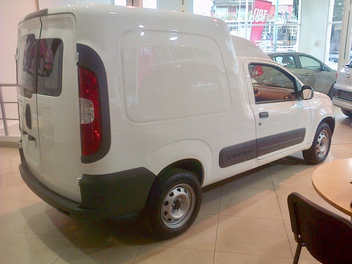 Fiat Fiorino (327) Cargo 1.4 Fire Flex